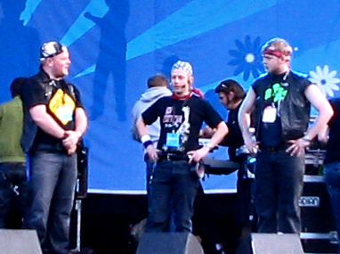 Steinar Sagen, Bjarte Tjøstheim, and Tore Sagen, hosts of the Norwegian radio show Radioresepsjonen.